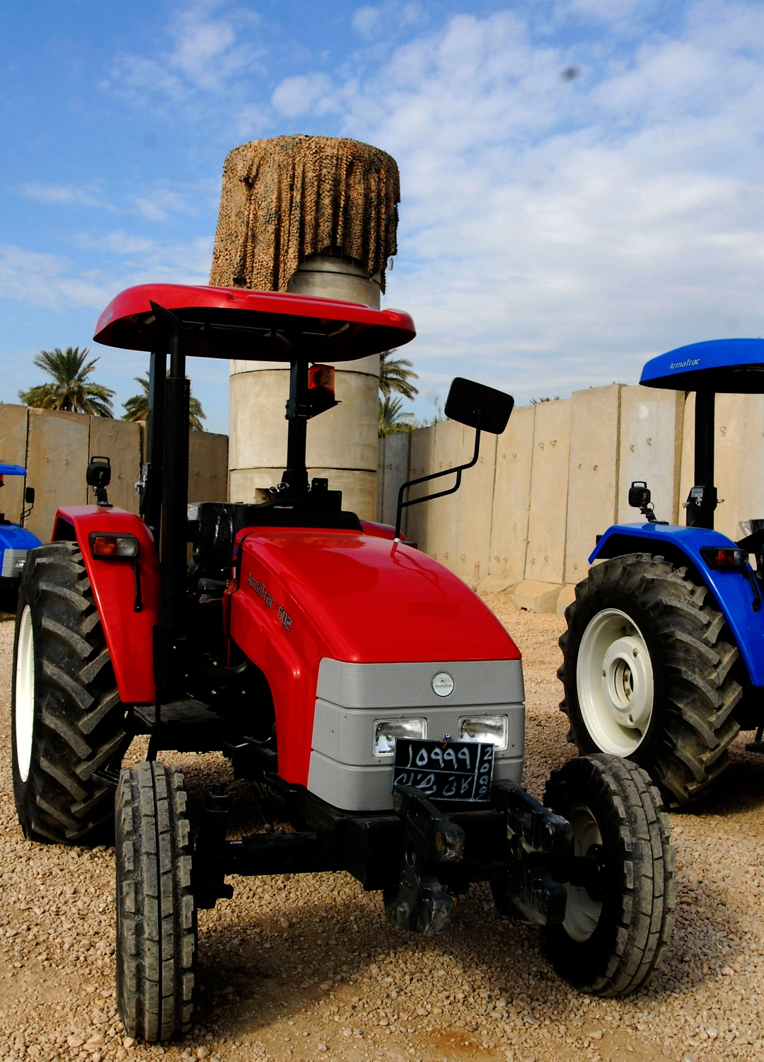 New ArmaTrac 602 tractors in Iraq.